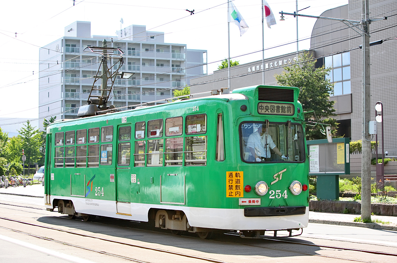 Sapporo Tram Type 250, No.254 ( Off duty, Chuo toshokan mae → StationDensha jigyosho mae Station).